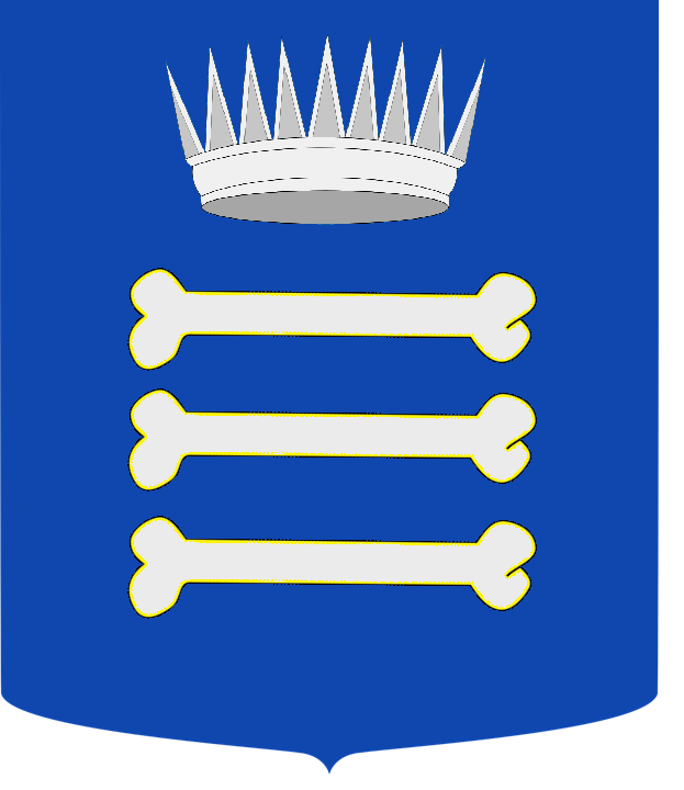 Basseggi shield